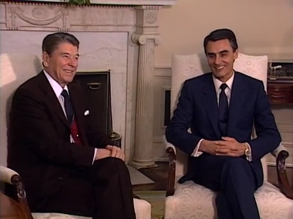 President Reagan and Prime Minister Cavaco Silva (of Portugal) in the Oval Office, on 24 February 1988.